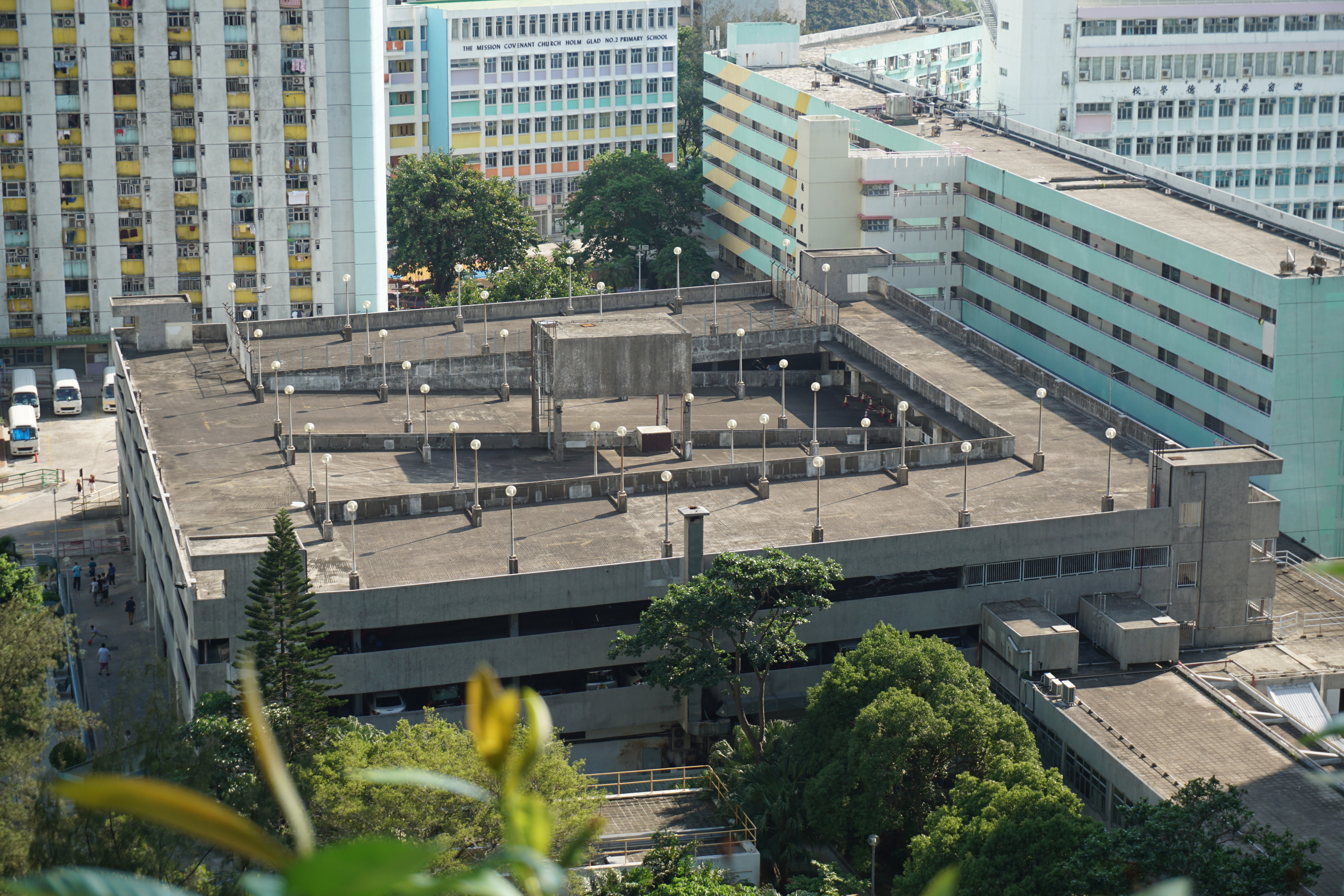 Shun On Estate in Sau Mau Ping, Hong Kong.